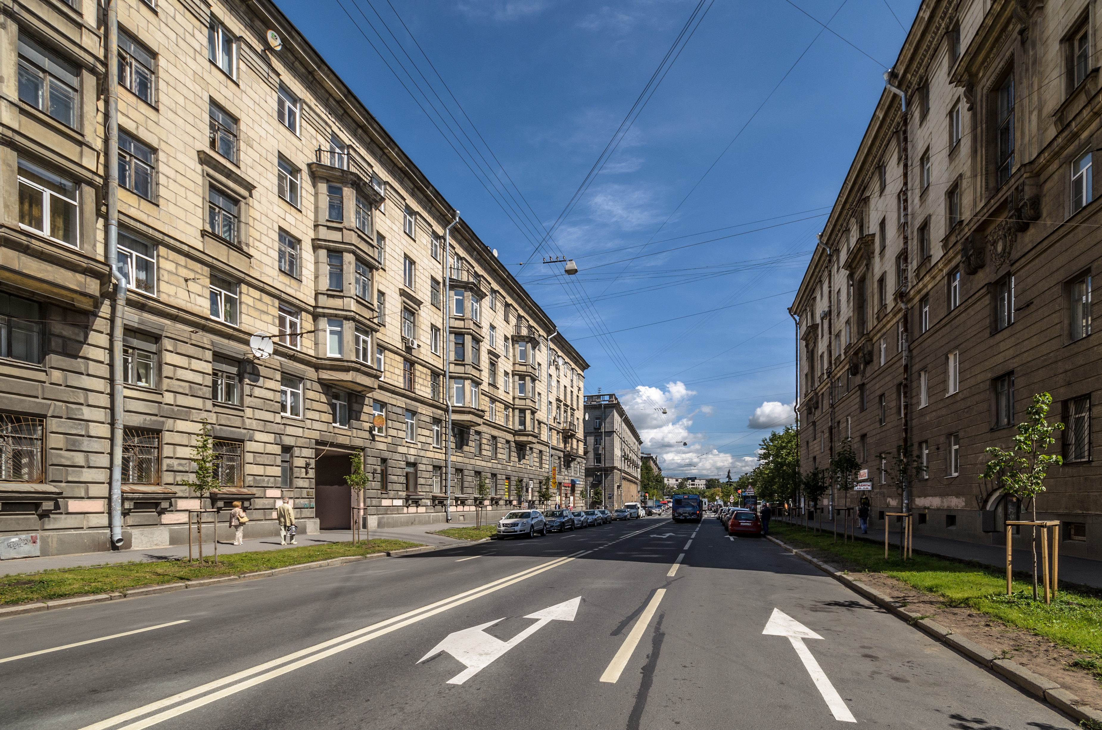 Levashovsky Avenue in Saint Petersburg